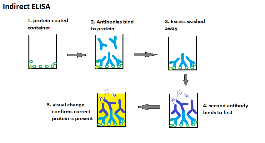 Basic Indirect ELISA steps